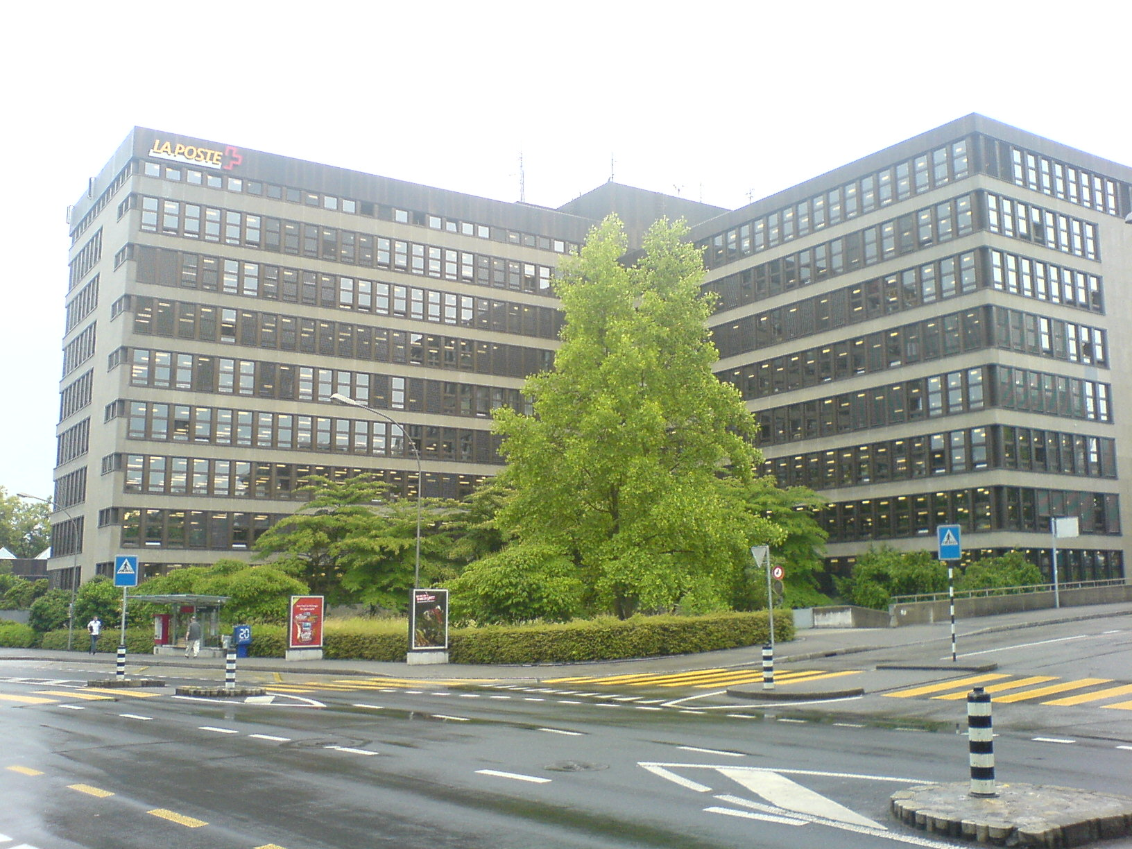 Headquarter from La Poste in Bern